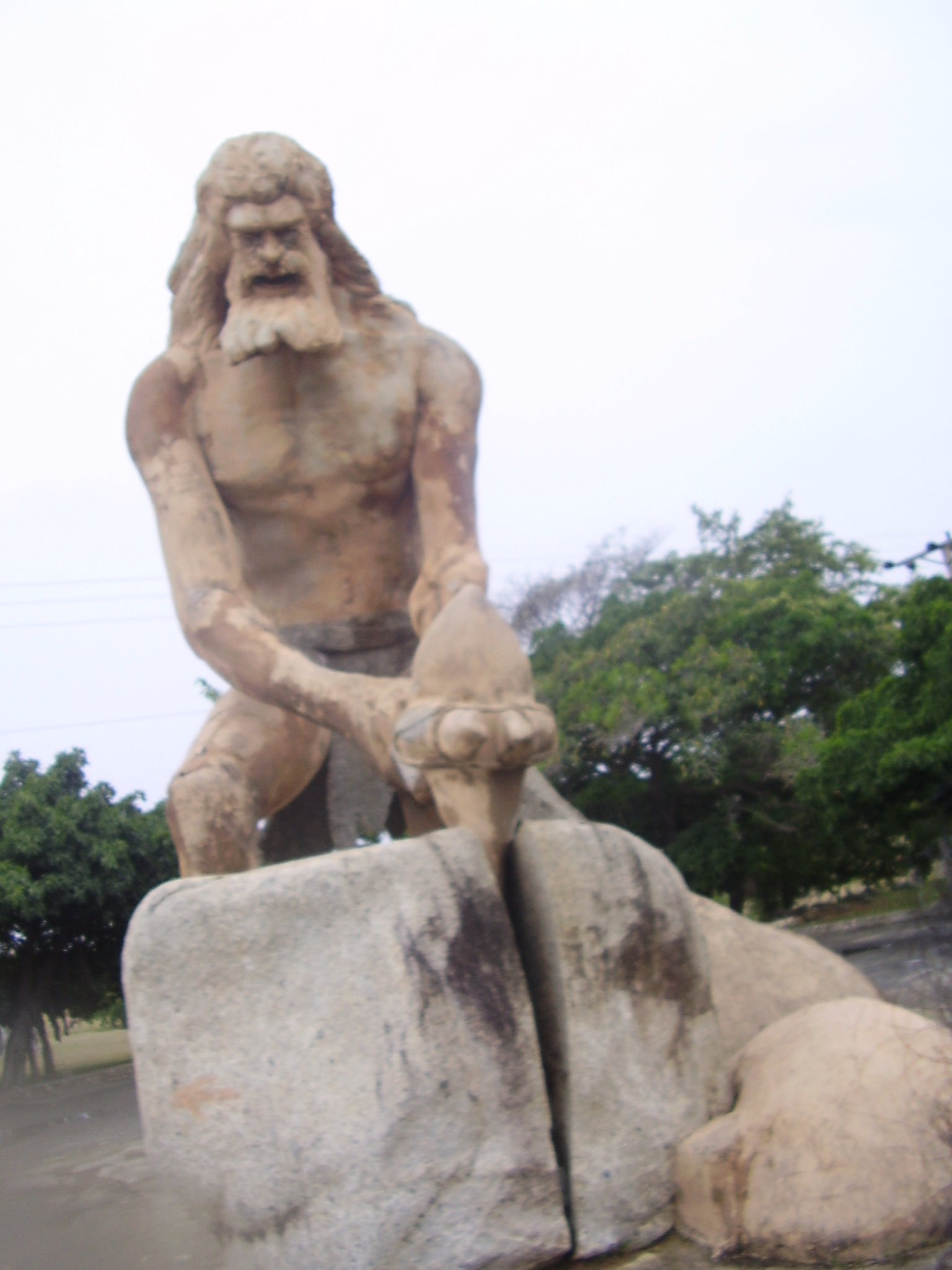 Foto de el gigantes hombre de Cro-Magnon en el valle La Pre historia, en El Parque Baconao, Santiago de Cuba,Cuba